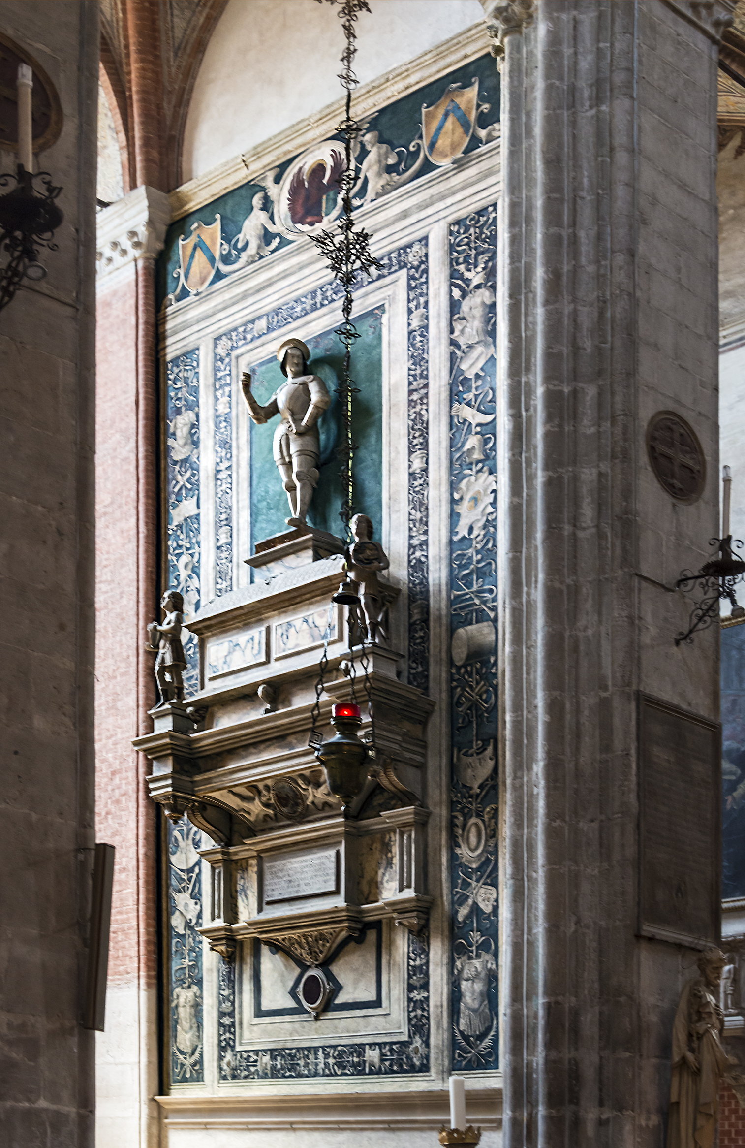 The Basilica di Santa Maria Gloriosa dei Frari. Cappella di san Michele (Chapel of St. Michael). Monument to Melchiorre Trevisan